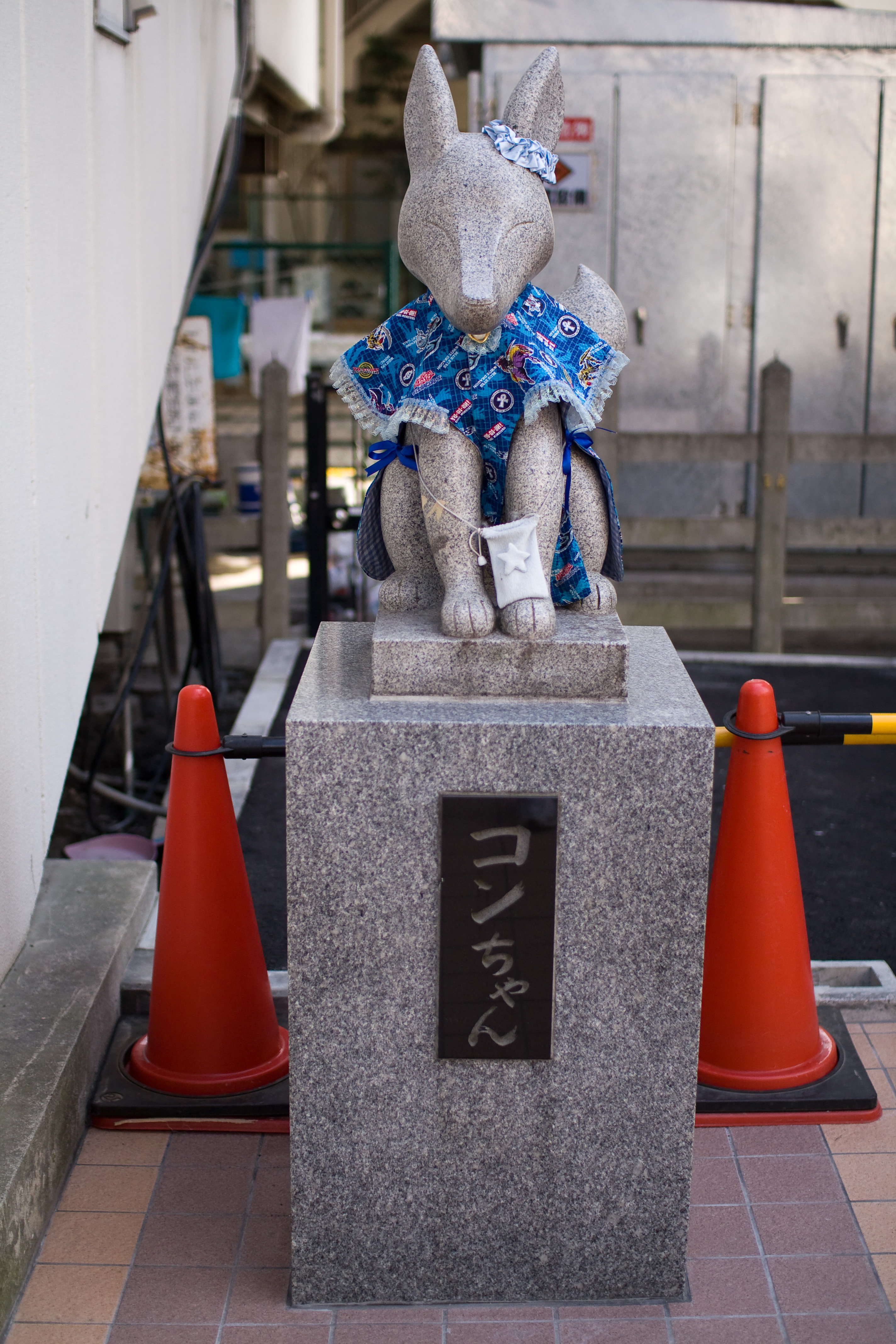 Stone figure "Kon-chan" in Anamoriinari Station